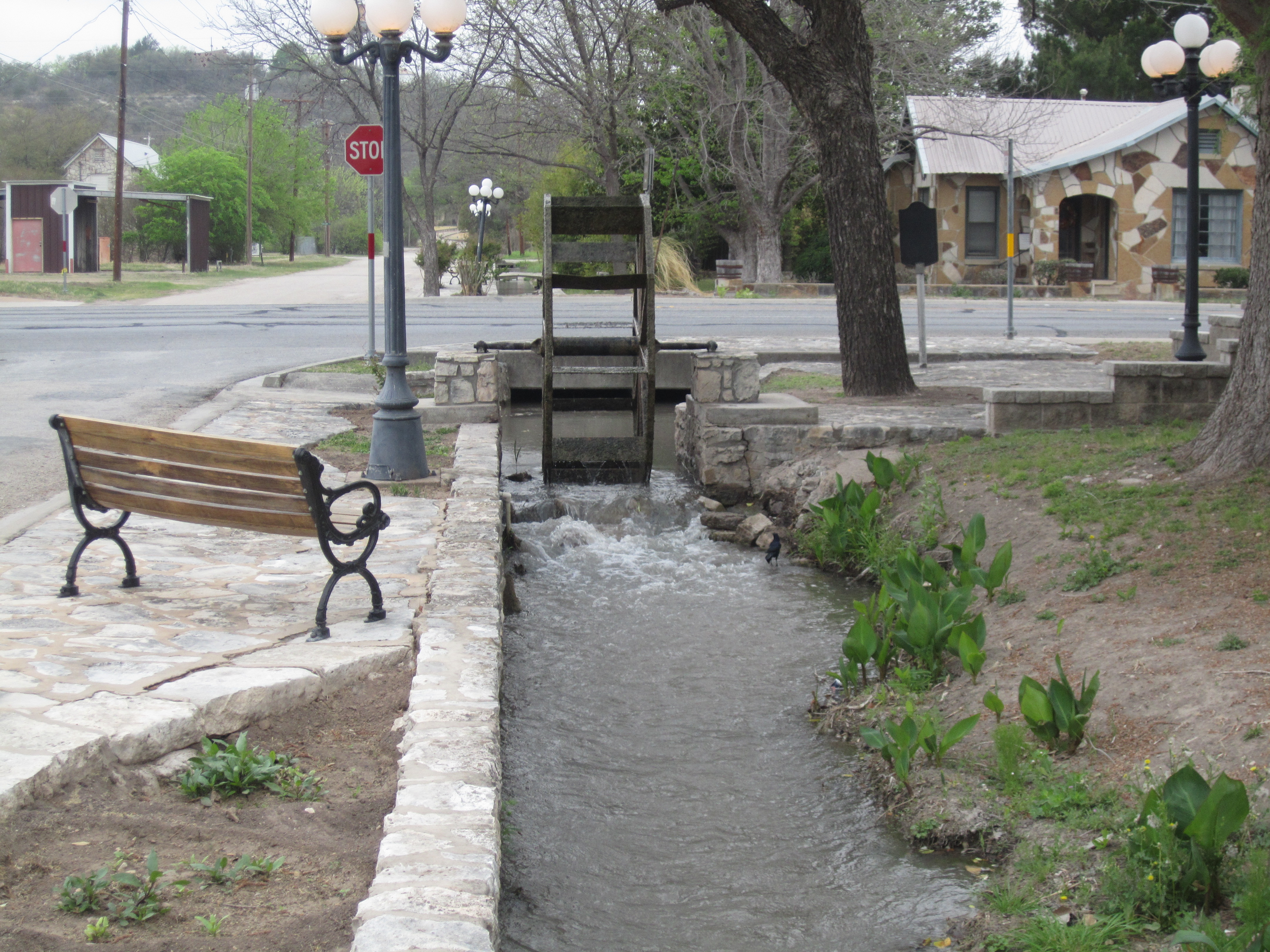 I took photo with Canon camera in Menard, TX